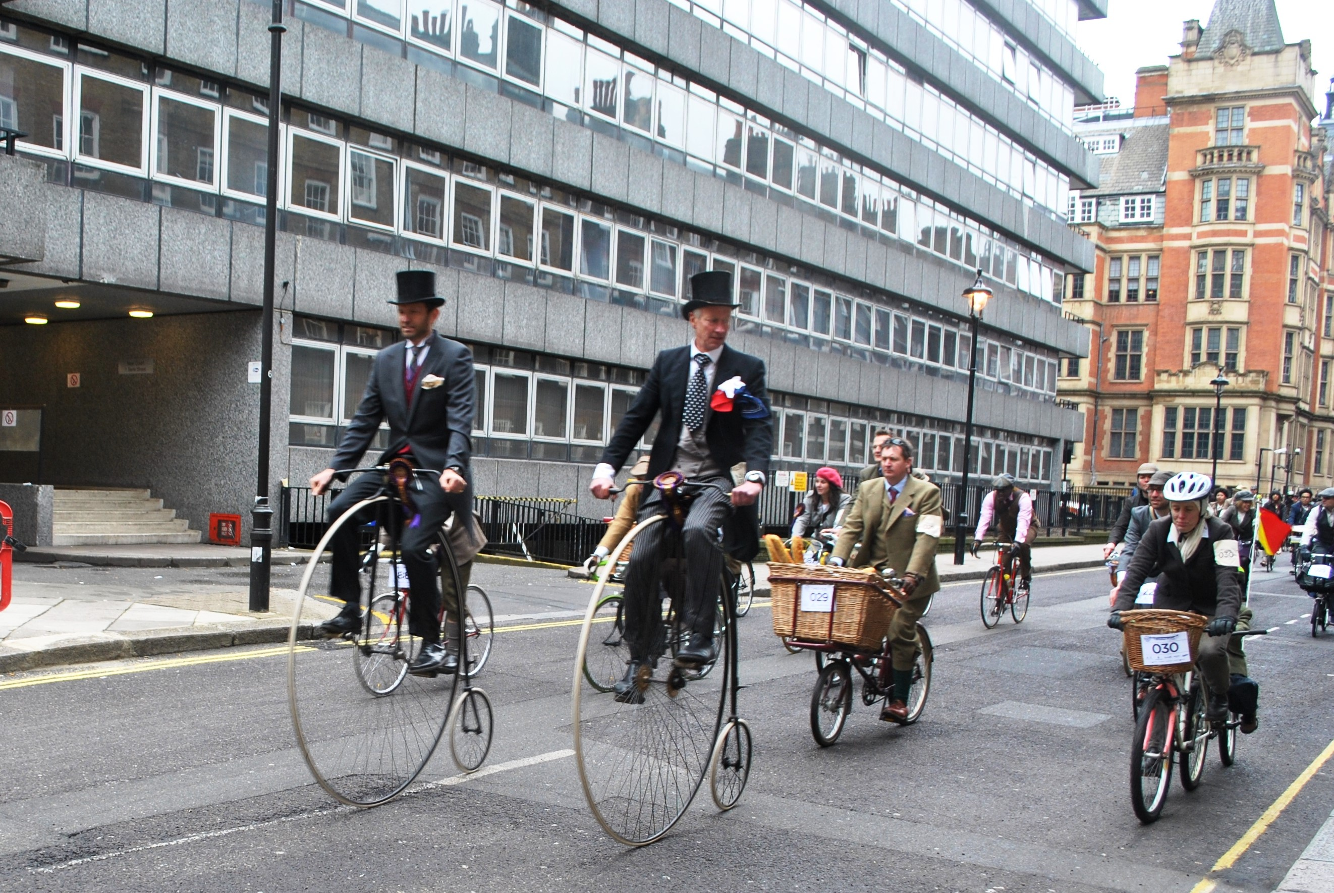 Tweed run